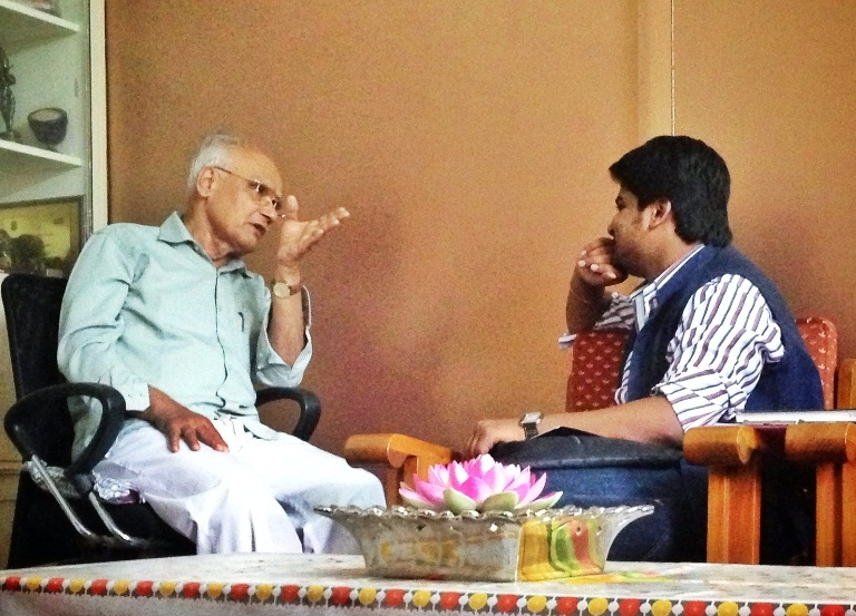 SLbhyrappa with karanam Pavan prasad